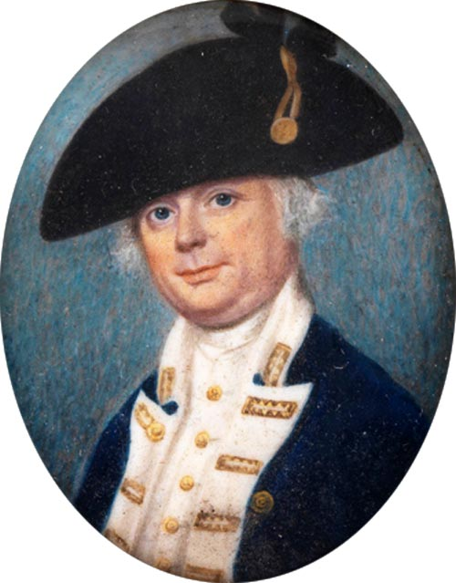 Francis William Drake (1724 - c. 1788)